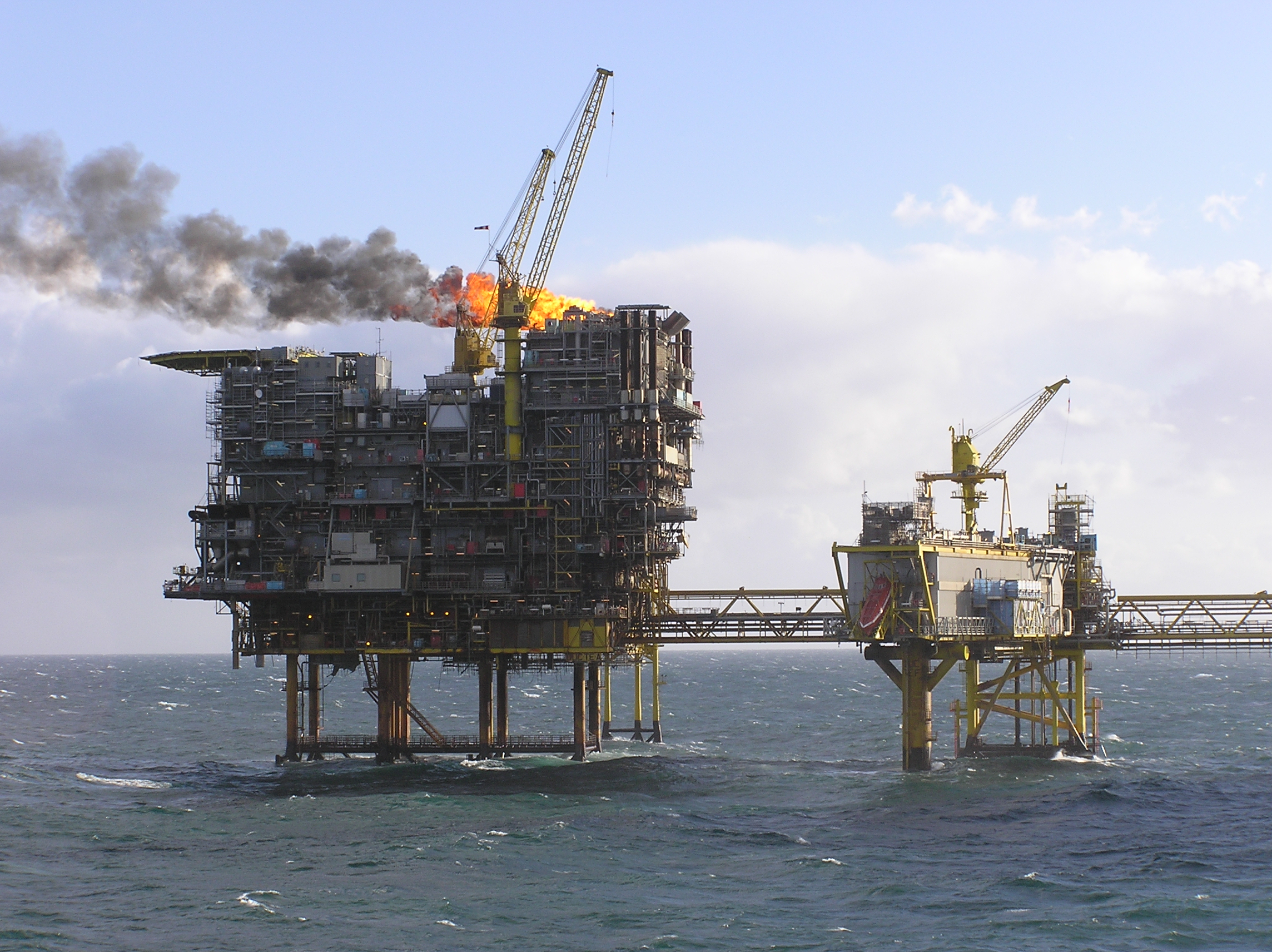 The Tyra Field is the largest gas condensate field in the Danish Sector of the North Sea. It was discovered in 1968 and production started in 1984. The field is owned by Dansk Undergrunds Consortium, a partnership between Maersk Oil, Royal Dutch Shell and Chevron Corporation, and operated by Maersk Oil.